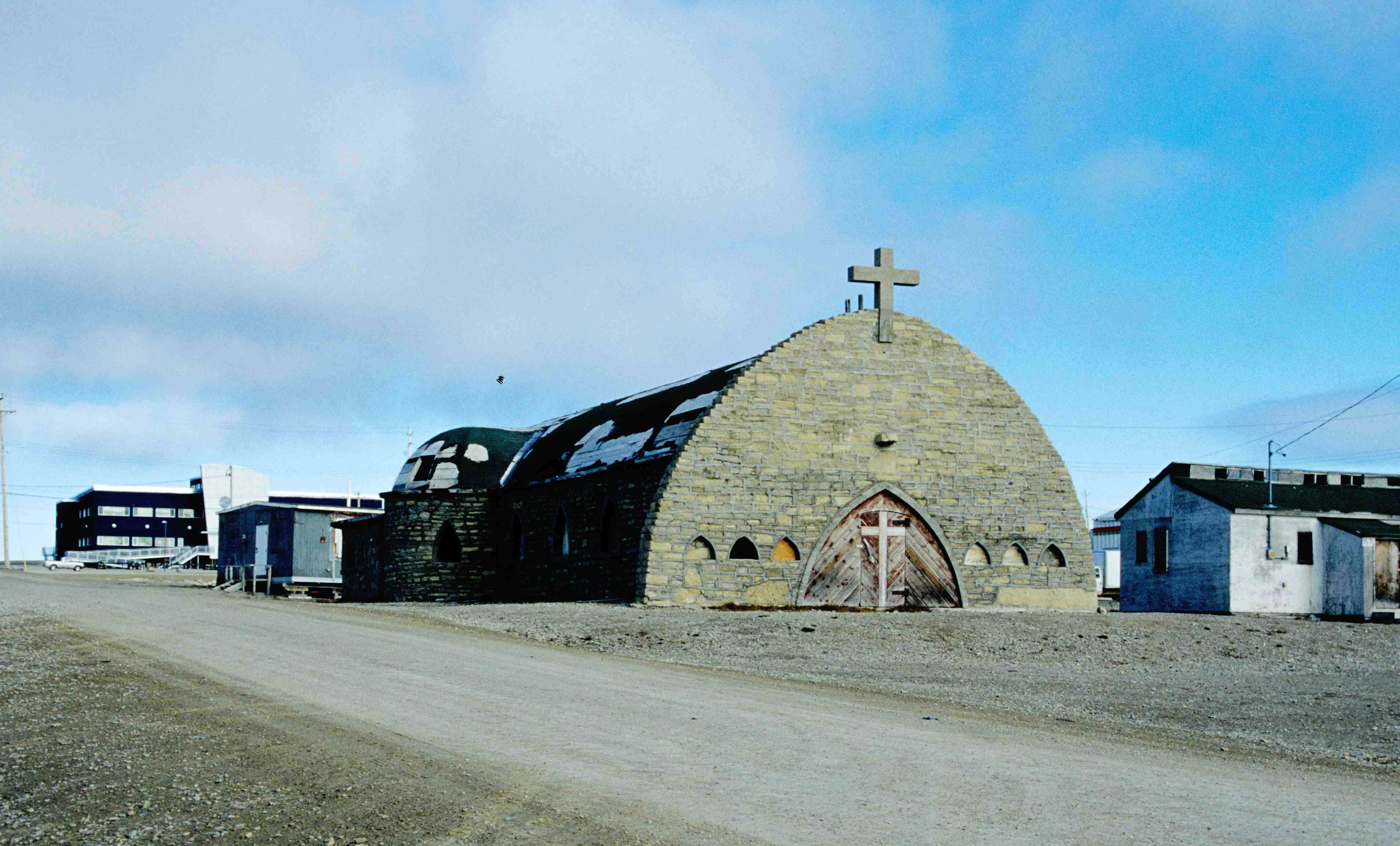 Iglulik Catholic stone church (abandoned)